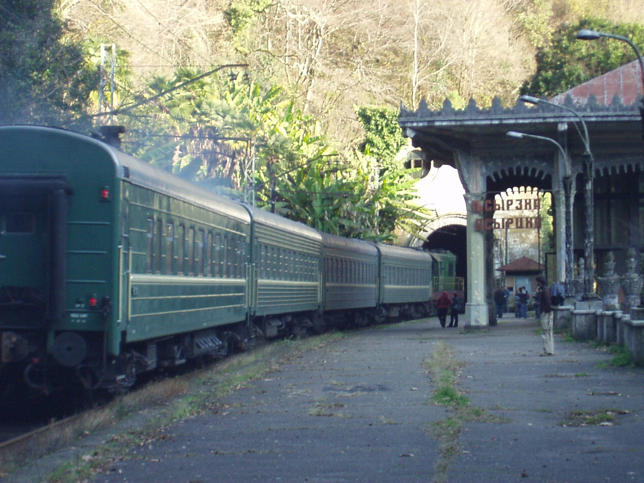 Abkhazian passenger train passing Psyrtskha stop